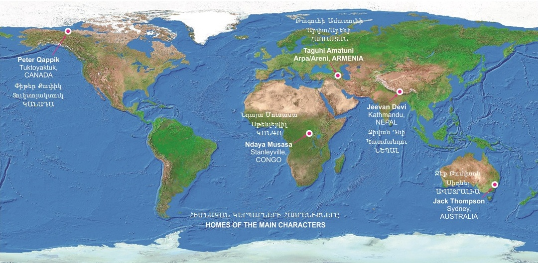 Home of the major characters in the novel